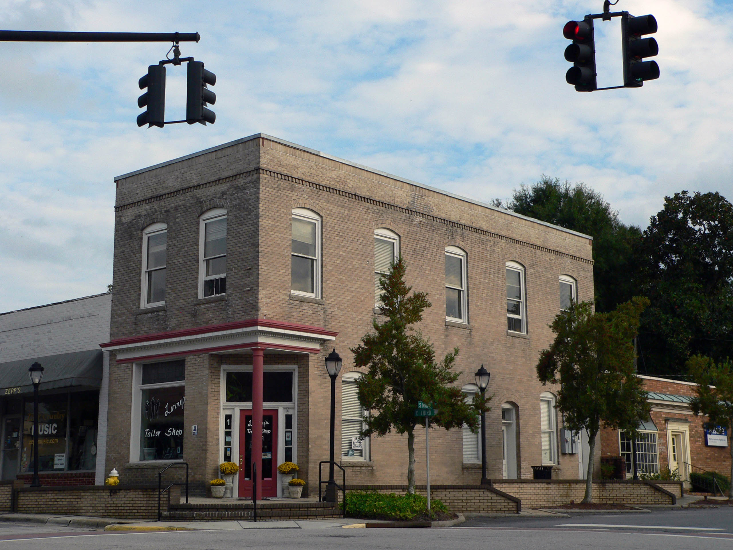 The Bank of Wendell building located on the southeast corner of the intersection of Main and Third Streets in the heart of the Wendell Commercial Historic District